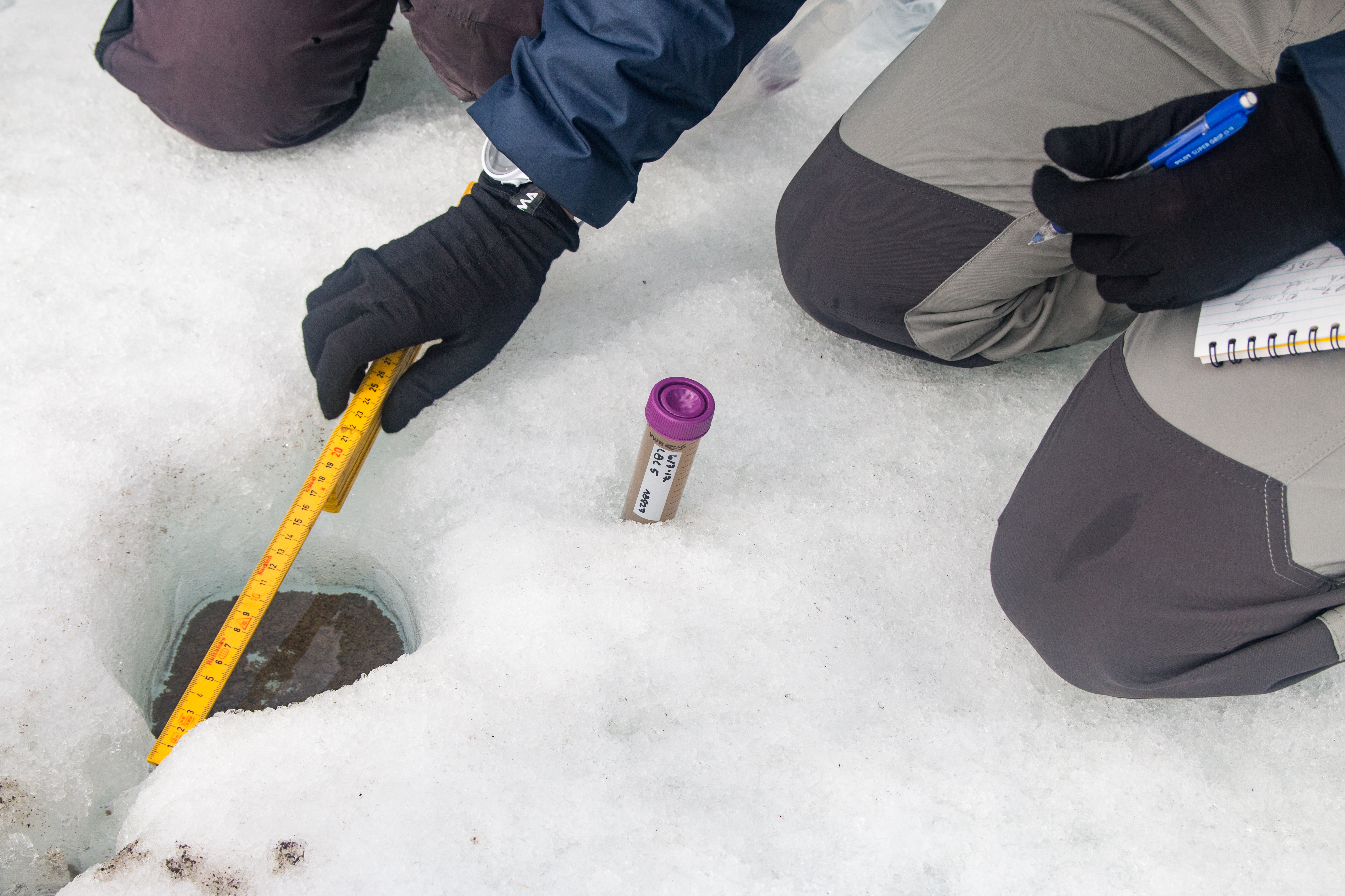 Measuring cryoconites on Longyearbreen glacier during field work of Arctic microbiology course, Svalbard.Although glaciers are considered free of living organisms, there are areas like supraglacial water-filled depressions called cryoconite holes. They can be 0,5 cm to a metre in diameter and up to 0,5 m deep and formed when dark granular matter is deposited onto the surface of the glacier and the low albedo of the matter causes increased absorption of solar energy, which results in melting of the ice and subsequently formation of a water-filled hole with dark granular material at the base. They are considered as microbial hotspots, where carbon and nutrients help the growth of photosynthetic and heterotrophic microorganisms